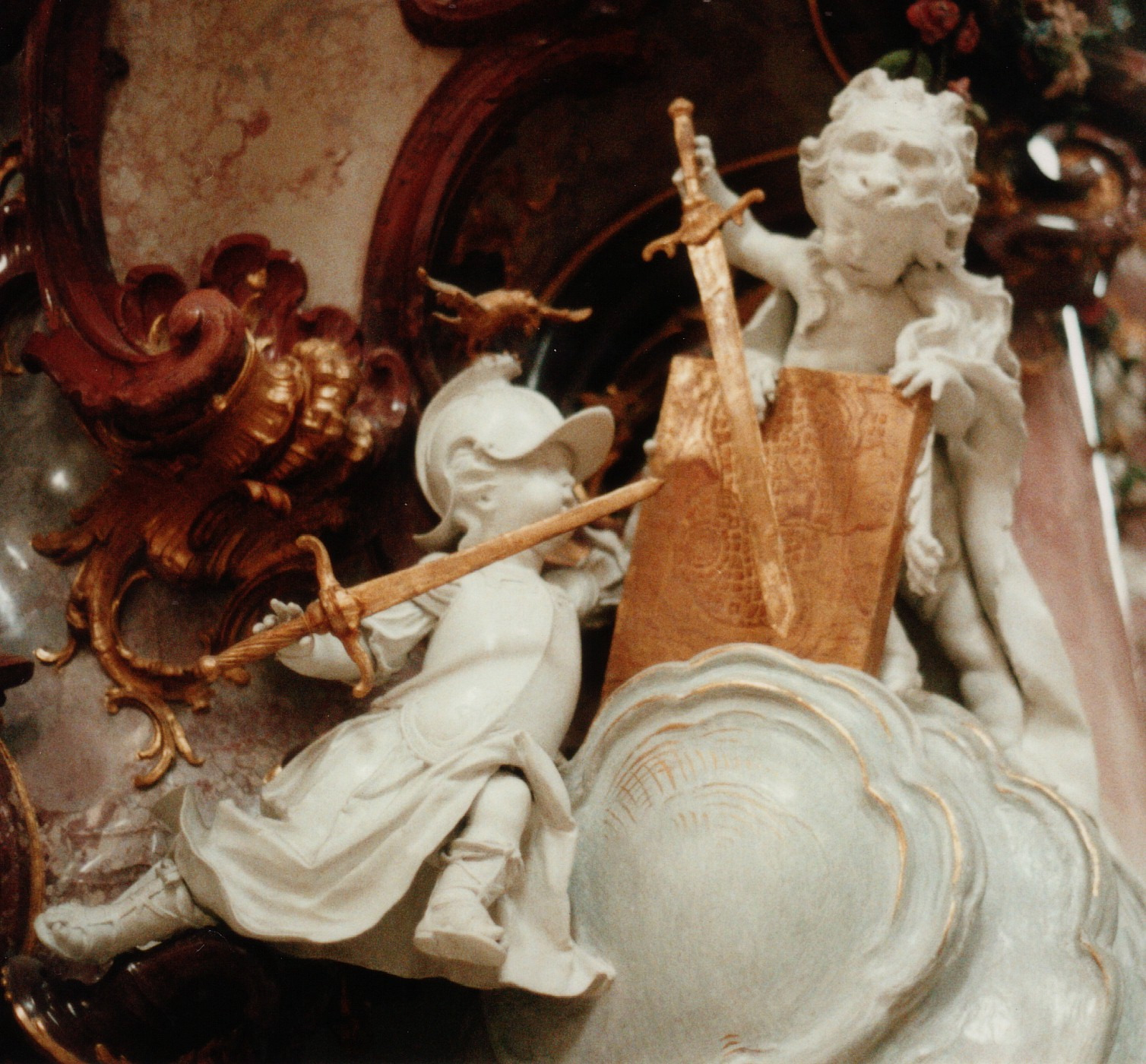 Baroque-era Kloster Zwiefalten in Germany: Nebuchadnezzar battles King Zedekiah of Judah (who holds a plan of Jerusalem). The kings are represented by two puttoes with the symbols Lion of Judah (Zedekiah) resp. the Mesopotamian Anzû (Nebuchadnezzar).